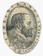 Engraving of Italian physician Castore Durante (1529-1590)